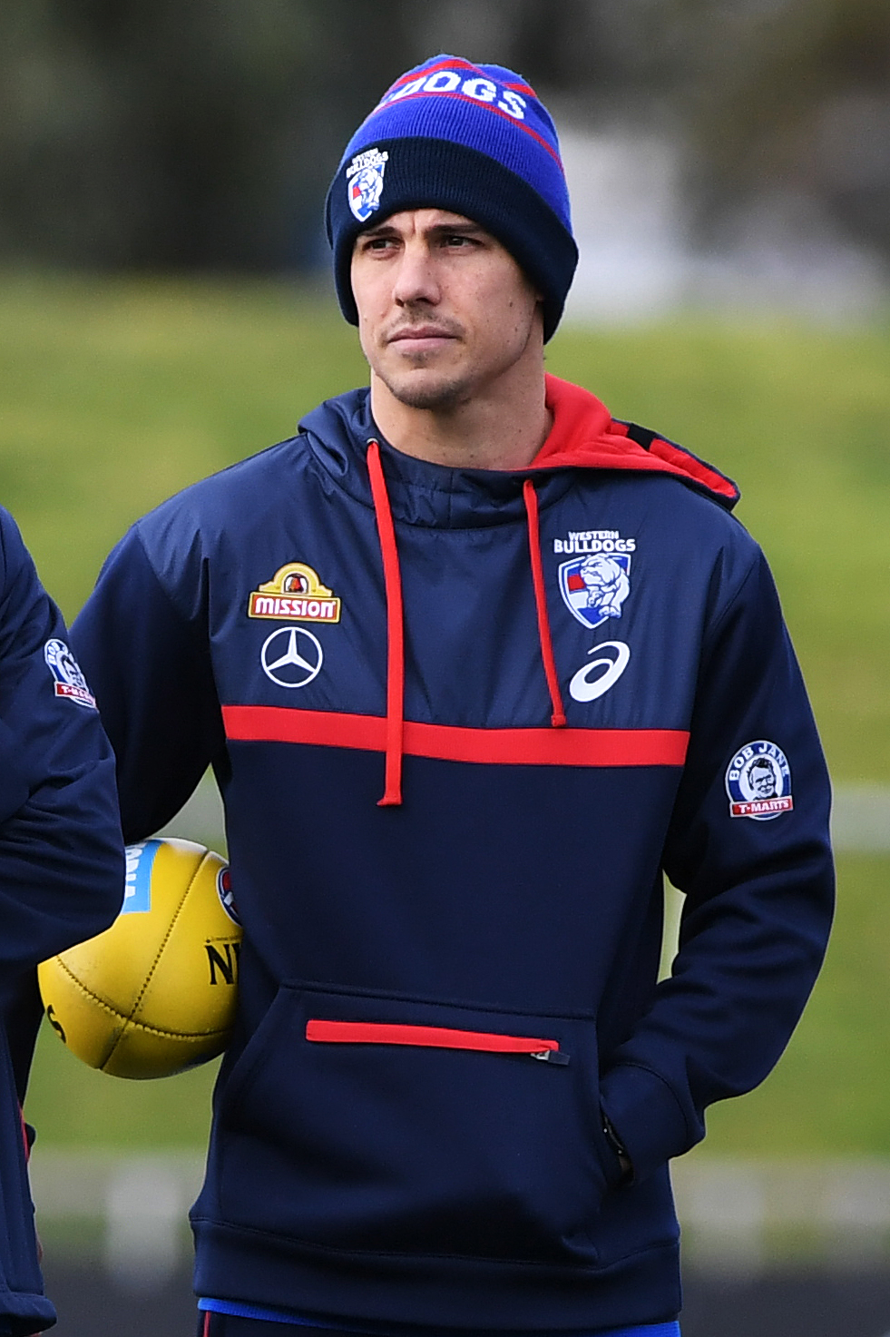 Angus Monfries of the Western Bulldogs during Western Bulldogs training on 7 August 2018 at Whitten Oval in Melbourne, Victoria.